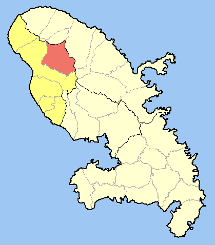 Location of Le Morne-Rouge within Martinique